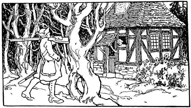 Illustration by Otto Ubbelohde to the fairy tale The Skillful Huntsman